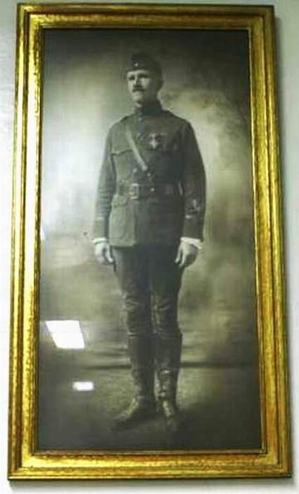 Photo of a portrait of Colonel James E. Rieger, who earned the Distinguished Service Cross and Croix de Guerre in World War I. The original portrait was taken around 1920. It currently hangs inside Rieger Armory, named for the Colonel, in his hometown of Kirksville, Missouri.